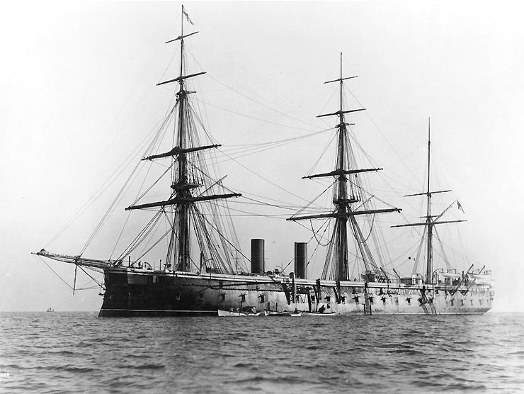 Photograph of British ironclad battleship HMS Northumberland in harbor while serving as the Channel Fleet's Second Flagship.